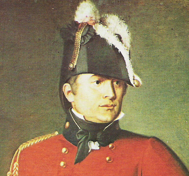 Robert Ross.